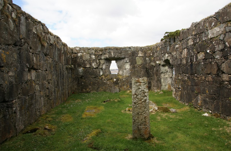 Pennygown Chapel, Mull, Argyll and Bute, Scotland. Interior looking west.